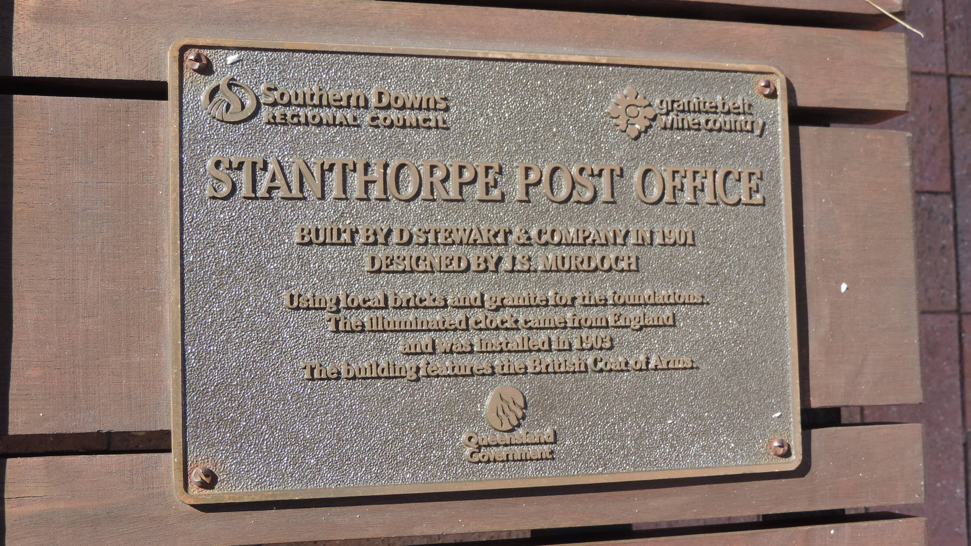 Plaque, Stanthorpe Post Office, 2015